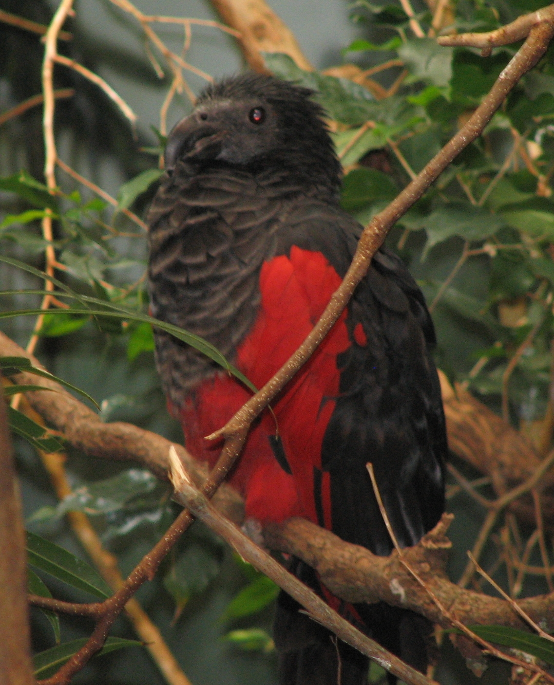 Pesquet's Parrot